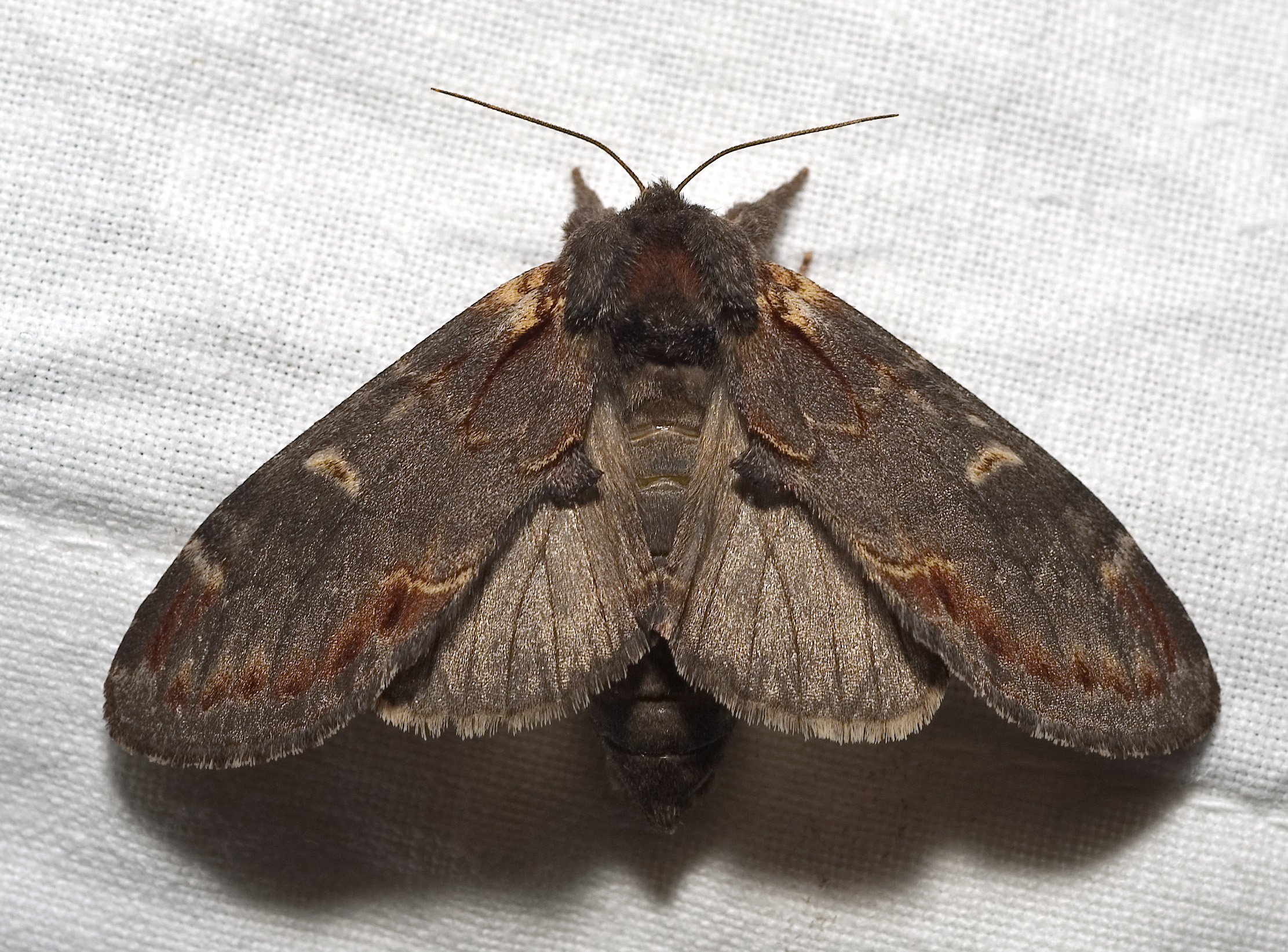 AnIron Prominent. Picture taken in Graz (Austria).